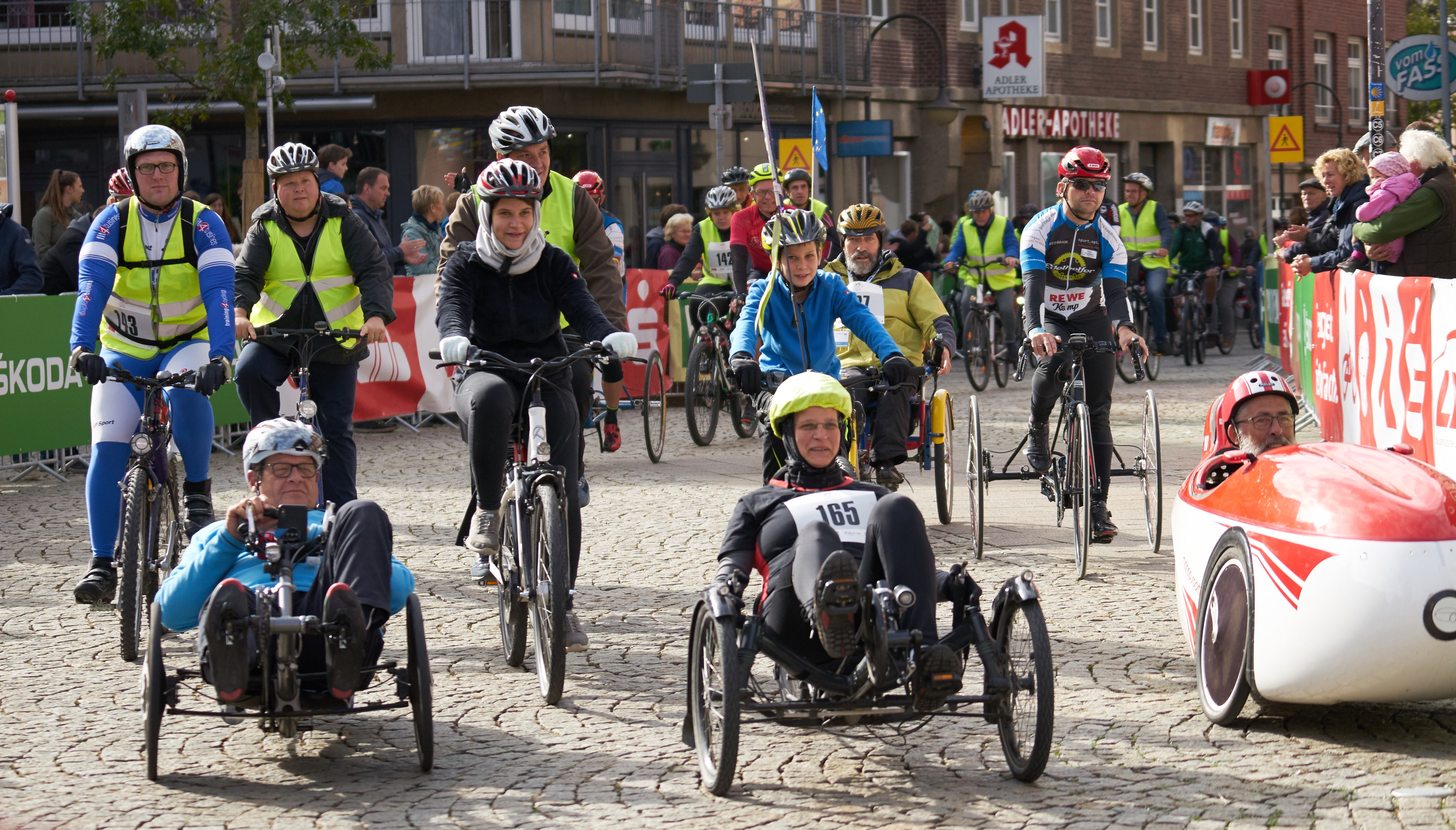 Münsterland Giro 2018, Giro Inklusiv for people with and withous disabilities in Coesfeld, North Rhine-Westphalia.